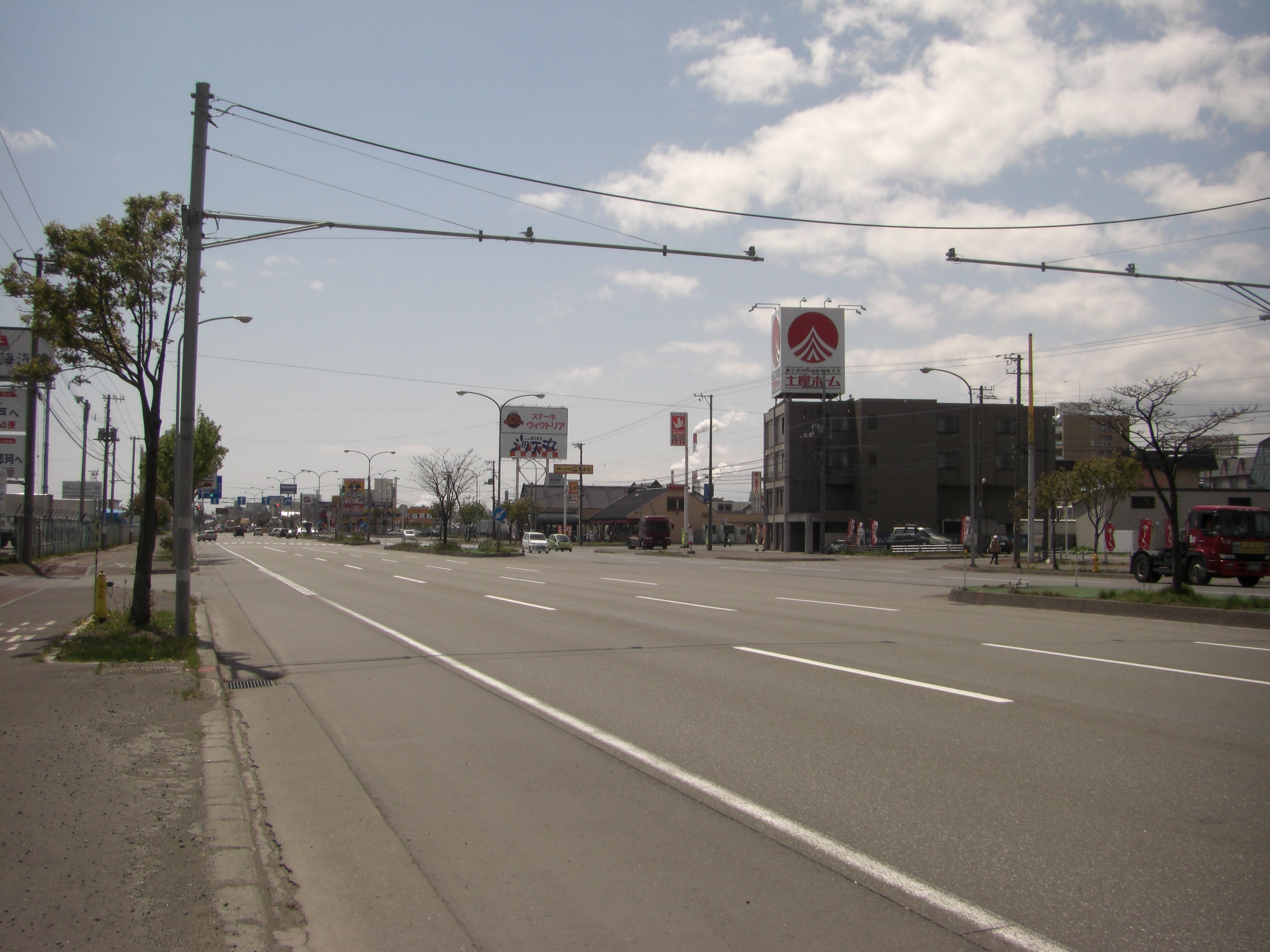 Hokkaido Prefectural road 259 (Hokkaido, Japan)